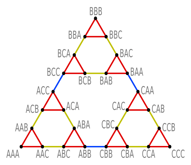 Game graph of the Tower of Hanoi of size 3. Edges correspond to allowed moves and nodes to legal positions.